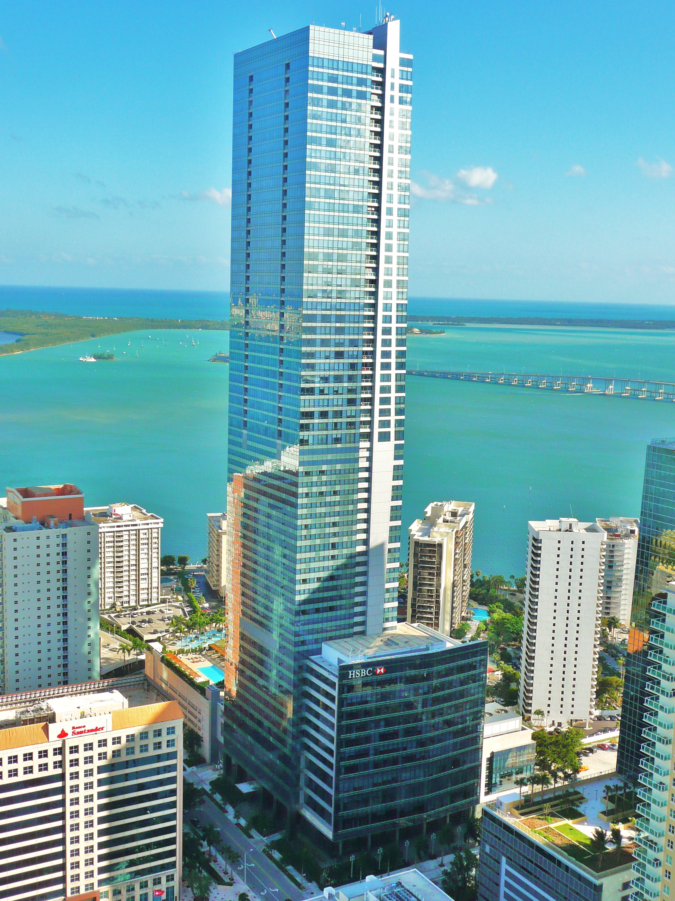 Digital photo taken by Marc Averette. The Four Seasons tower in Downtown Miami, Florida, United States.